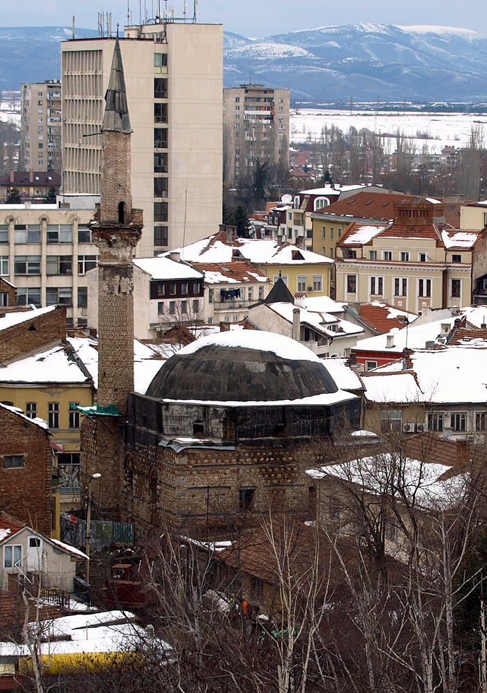 Fatih Mehmet Mosque in Kyustendil, Bulgaria